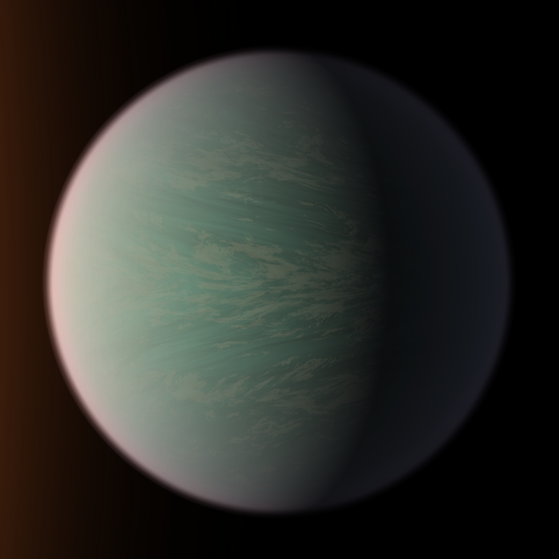 Artist's impression of TRAPPIST-1b planet, as of 2018